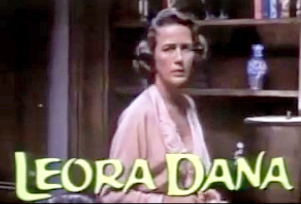 Leora Dana in trailer for "Some Came Running" (1958)